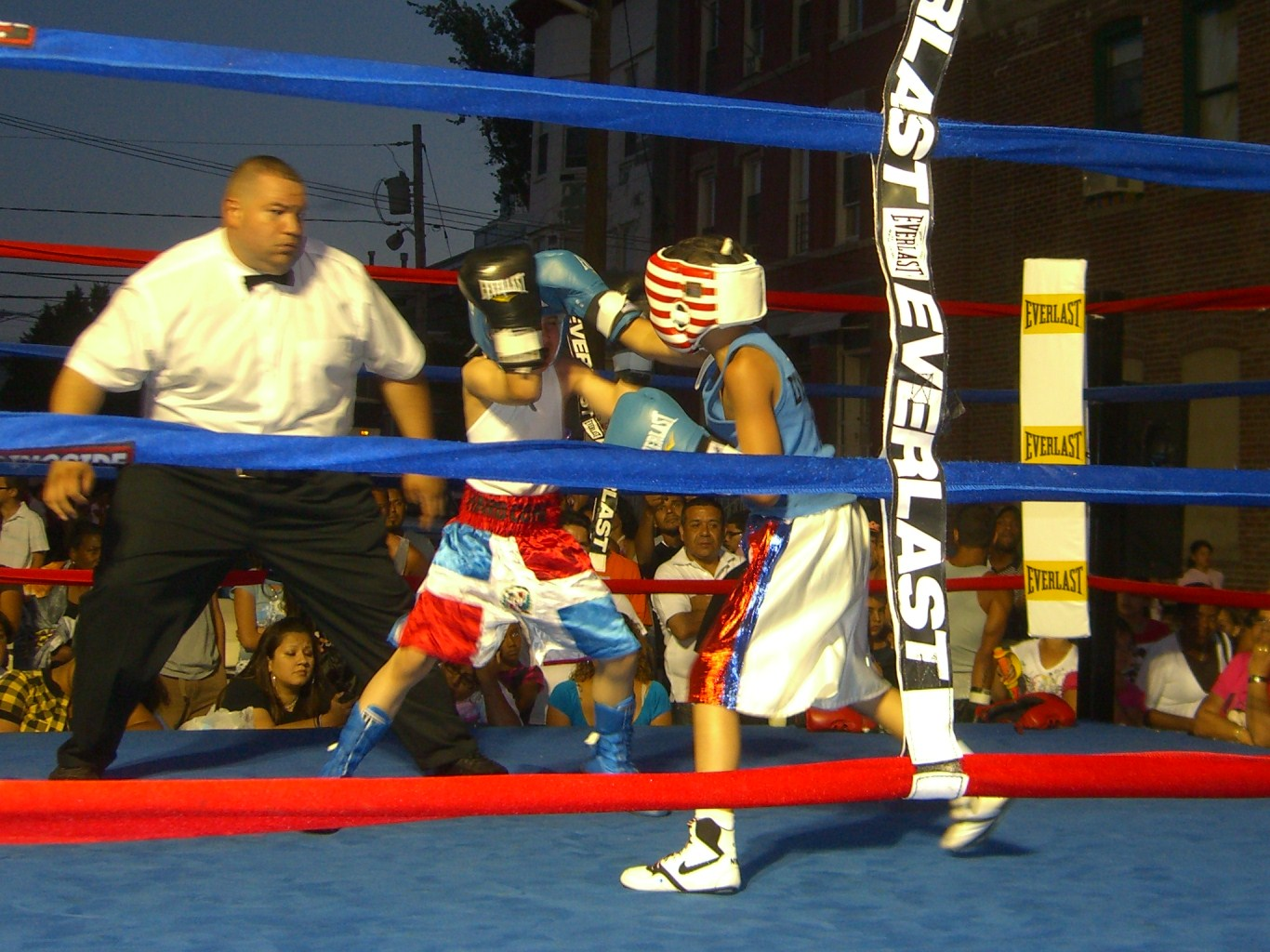 A child amateur boxing exhibition match in Union City, New Jersey. Photo by Luigi Novi. This photo may be used and modified, for any purpose, only if the photographer is visibly credited in each instance in which it is used. (See licensing information below.) For more information on my photos, you can contact me here.